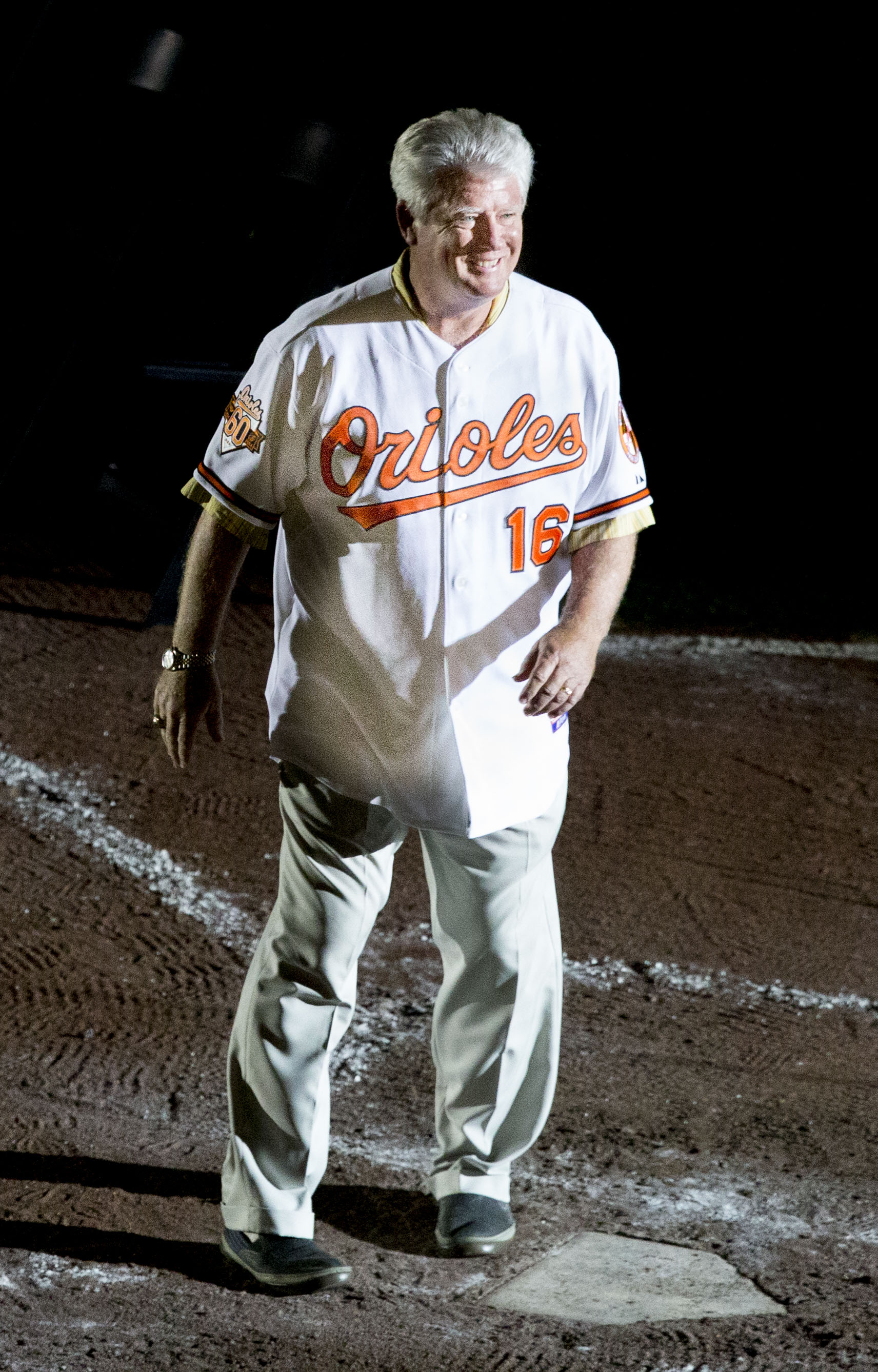 Scott McGregor at Camden Yards in 2014